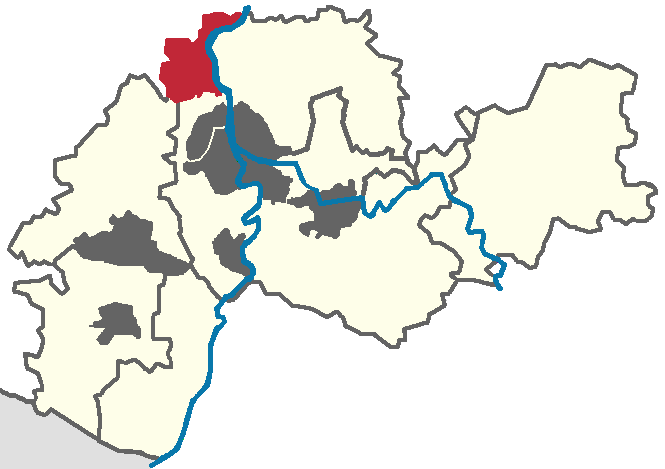 Worms in the Rhine Neckar Area (Rhein-Neckar-Dreieck) in Germany